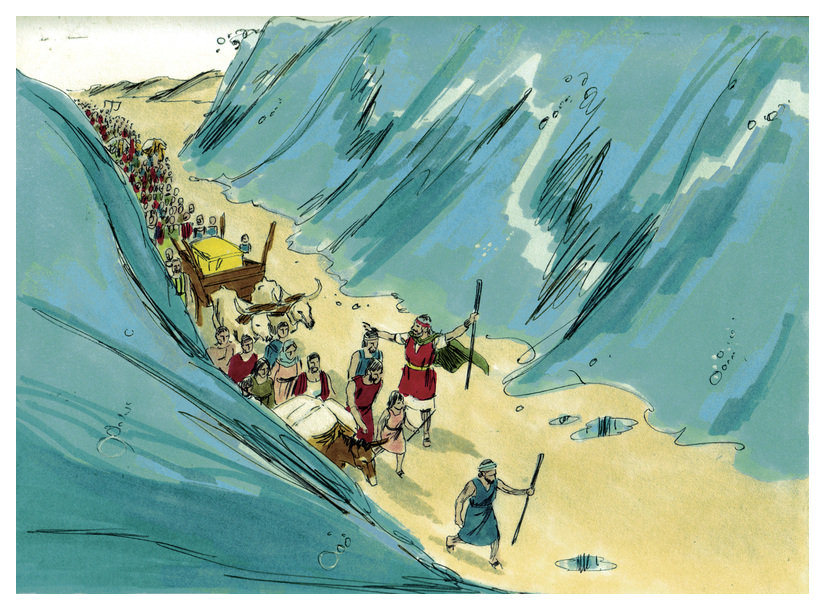 Biblical illustration of Book of Exodus Chapter 15